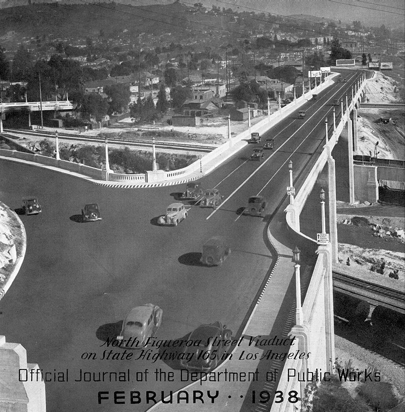 This was the cover of California Highways and Public Works from February 1938. A modern view can be seen at [1] or from ground level at Image:SR 110 north over LA River.jpg; this is the lower bridge.